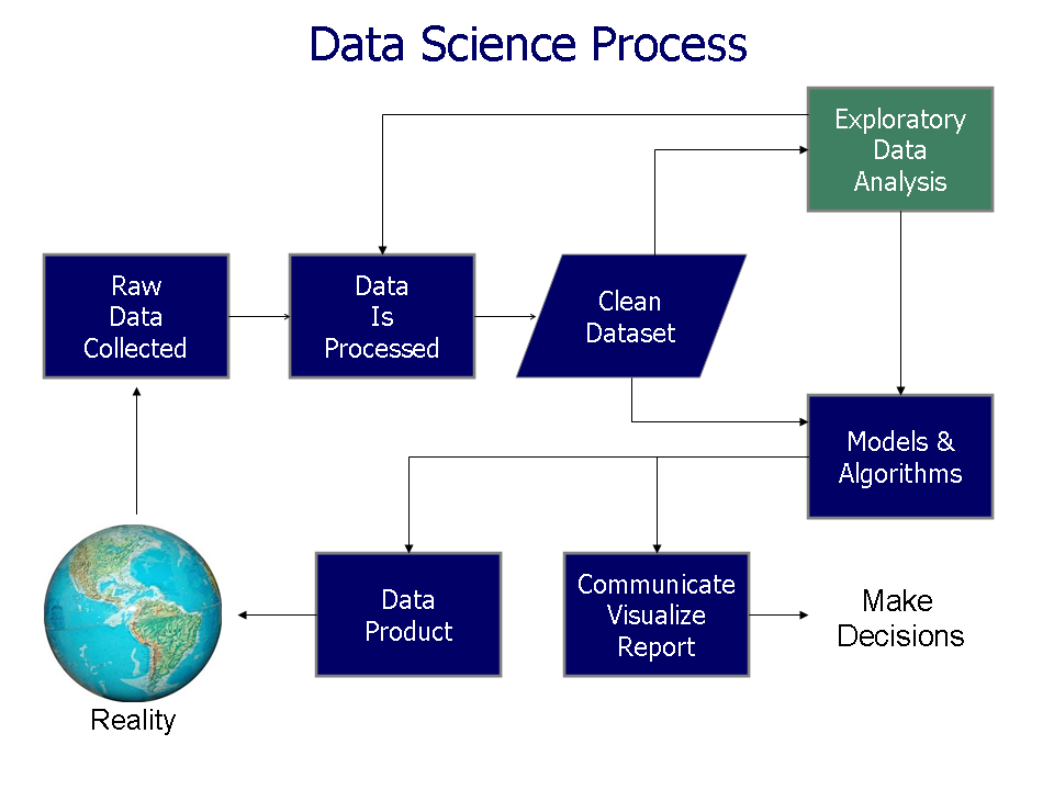 Flowchart showing the data visualization process. Diagram overview This diagram shows the data science process. Data is collected from sensors in the environment, represented by the globe. Data is "cleaned" or otherwise processed to produce a data set (typically a data table) usable for processing. Exploratory data analysis and statistical modeling may then be performed. A "data product" is a program such as retailers use to suggest new purchases based on purchase history. It can also create data and feed it back into the environment. This diagram is based on a similar diagram in "Doing Data Science" by O'Neill and Schutt (2014).[1] Gil Press discussed the history of data science and related terminology in a Forbes article in May 2013.[2] References ↑ O'Neil, Cathy and, Schutt, Rachel (2014) Doing Data Science, O'Reilly ISBN: 978-1-449-35865-5. ↑ Forbes-Gil Press-A Very Short History of Data Science-May 2013